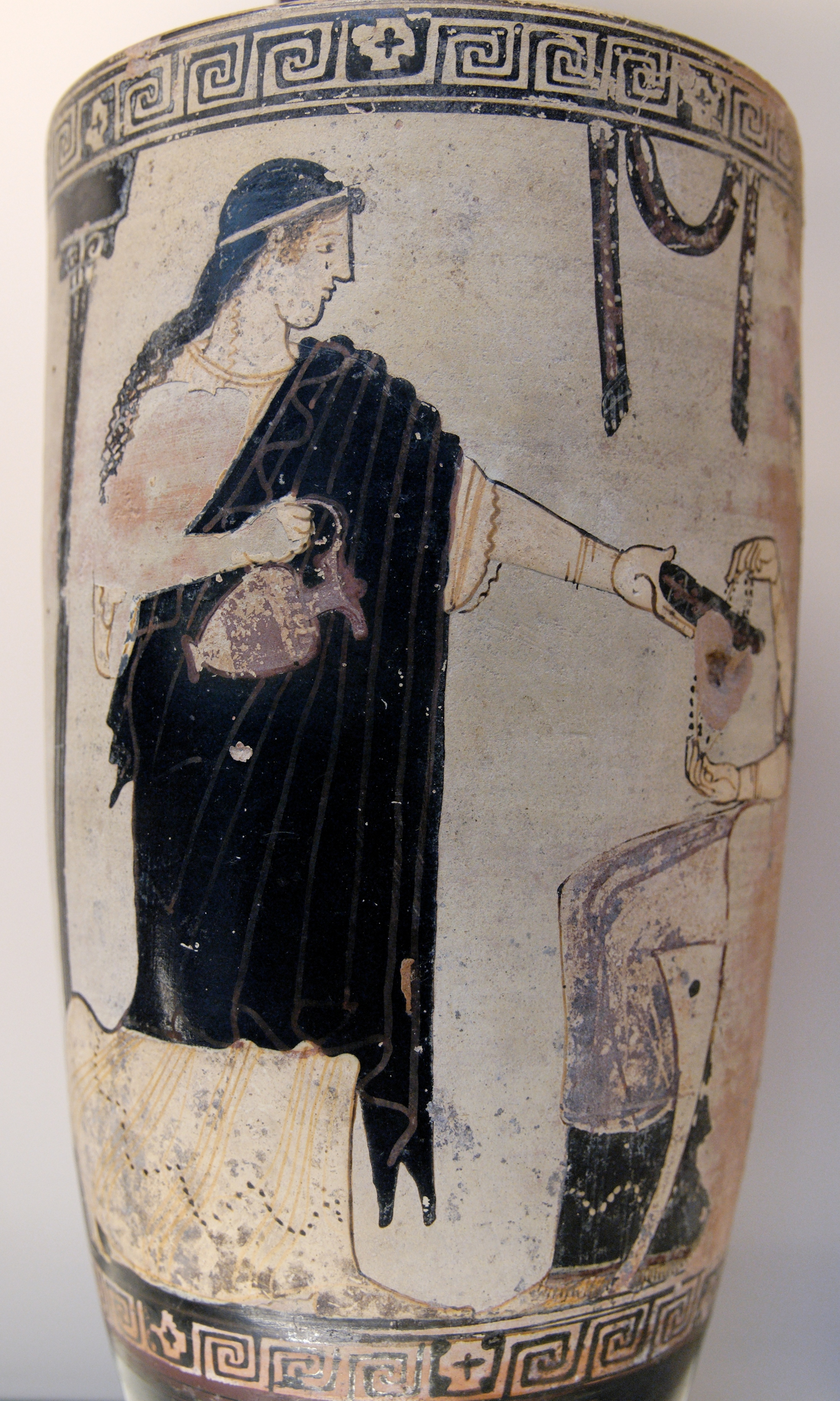 Woman pouring a libation. Detail from an Attic white-ground lekythos, ca. 460 BC.